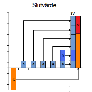 Swedish corporate finance: slutvärde